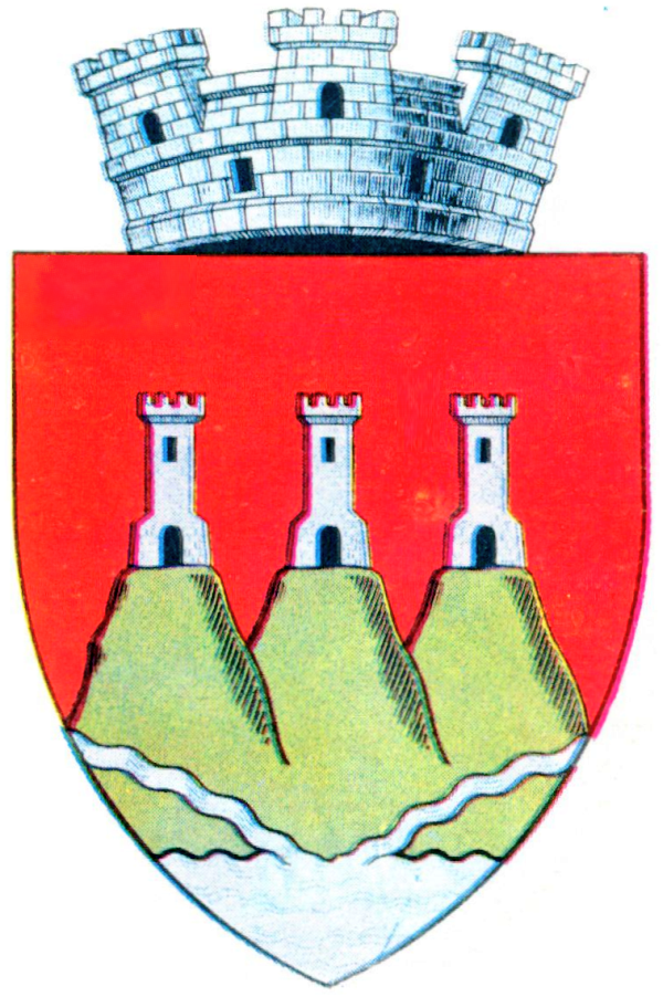 Interwar coat of arms of Adjud, Putna County, Kingdom of Romania.